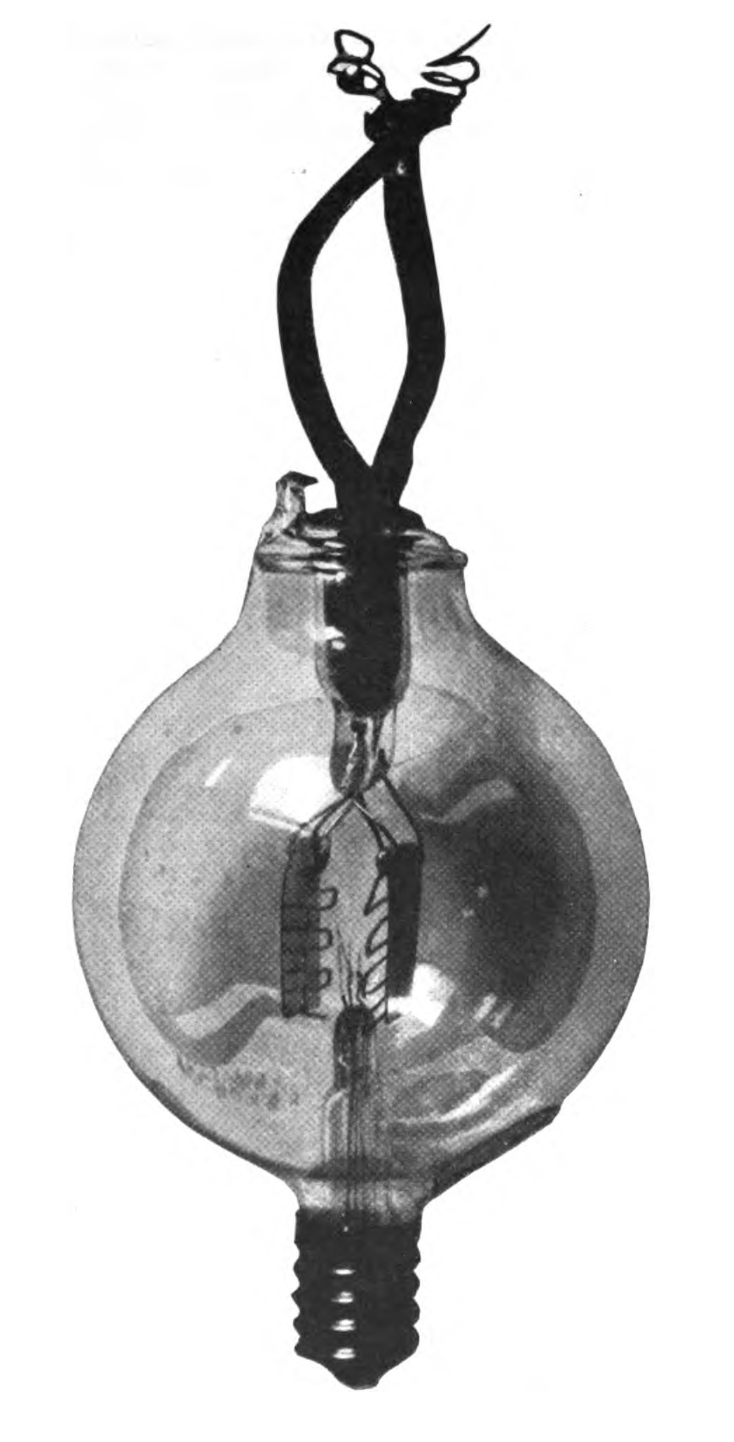 A De Forest audion tube, the first electron tube that could amplify. About 2 in. (5 cm) diameter. The first triode, or tube with three electrodes, a filament, grid, and plate, the audion was invented in 1906 by American engineer Lee De Forest. This tube originally had two filaments located in the center of the tube, so that when one burned out the "spare" could be used, but in this tube both are burned out; only the ends of the filament wires are left. The two connected grids (zigzag wires) are visible on either side of the filament, and the two plates are outside the grids. The filament was connected to the screw terminal at bottom, while the grid and plate connections were brought out to wires at the top. Manufactured for a few years beginning about 1910, the residual air left in these early audion tubes due to inadequate evacuation created ions that caused the tube to function erratically, and shortened the life of the filament. This is evidenced by the dark deposit of material on the inside of the glass envelope, sputtered off the filament by ion bombardment. This version, which was given the trade name "ultraudion", was designed for use in regenerative receivers. The caption of the picture read: "This is a real old De Forest audion. Several years ago radio amateurs saved for long periods to procure one of these magic bulbs. As may be observed, two filaments, two grids, and two plates were employed. The stability of this type tube was anything but constant due to imperfect evacuation."